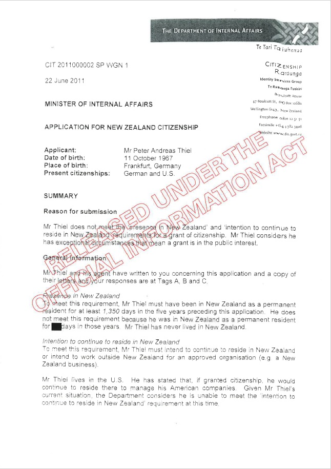 Briefing to the NZ Minister of Internal Affairs on Peter Thiel's citizenship released under the Official Information Act